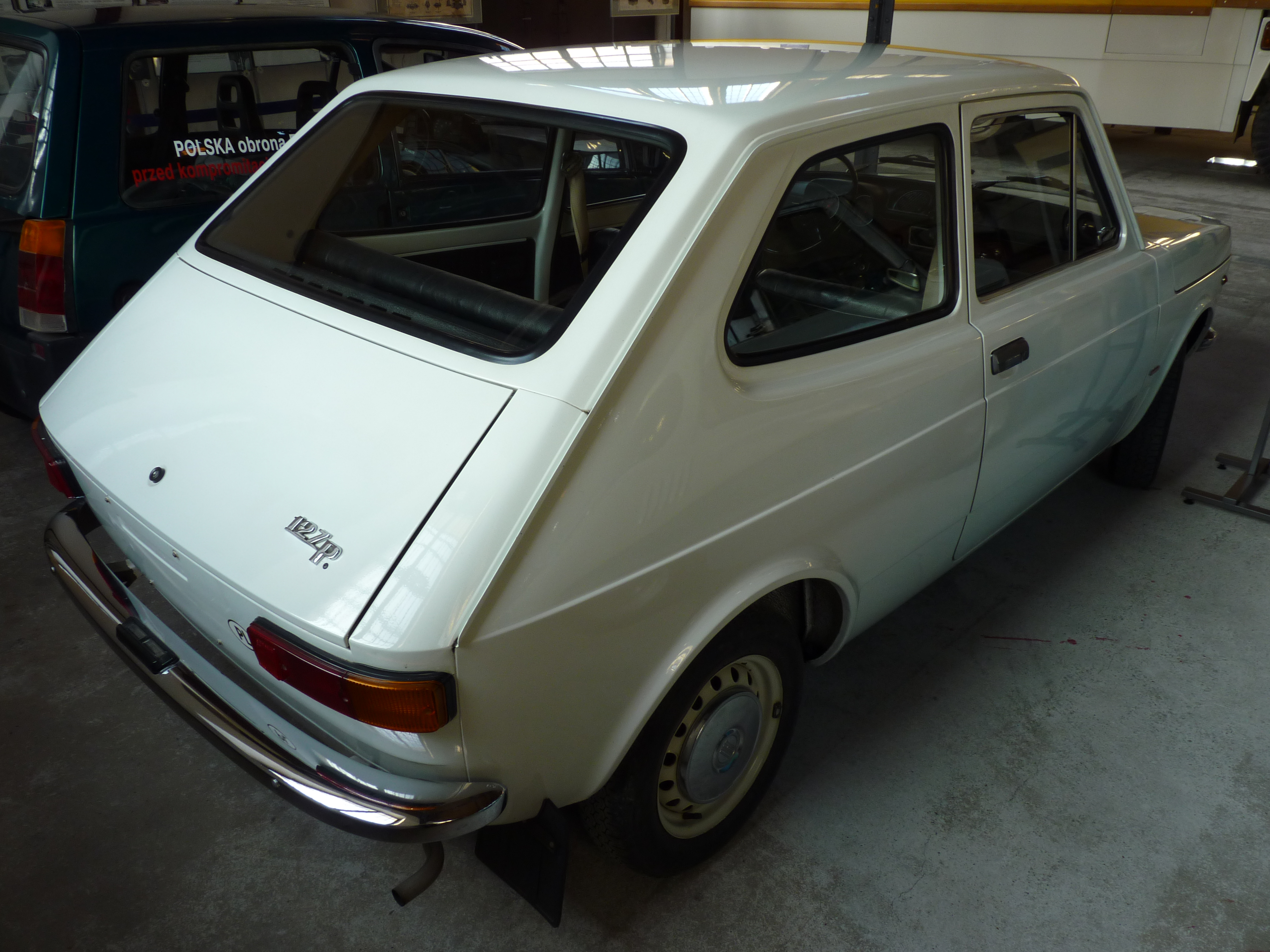 Polski Fiat 127p car at Muzeum Inżynierii Miejskiej in Kraków, Poland.